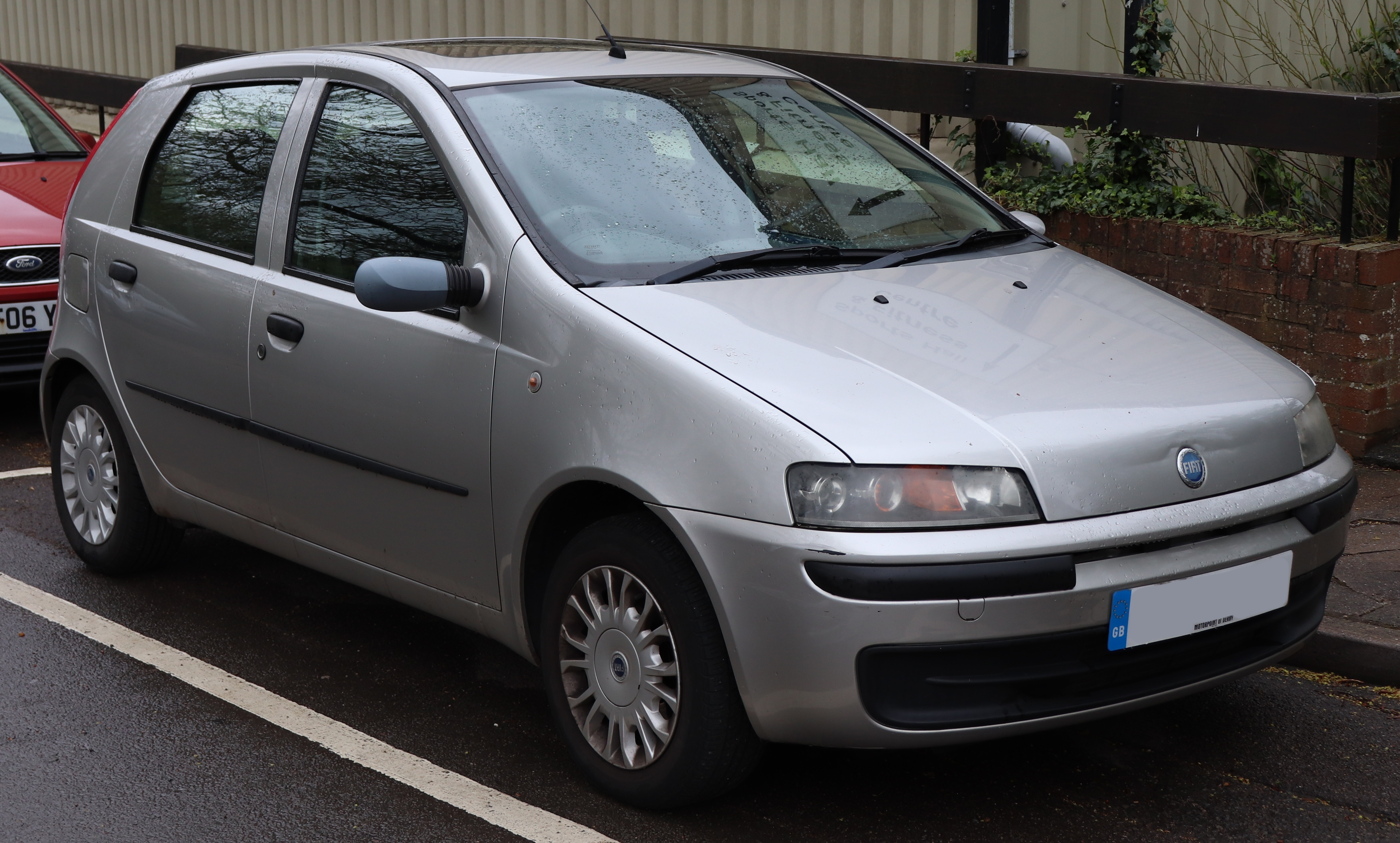 2001 Fiat Punto HLX 16V 1.2 Front Taken in Leamington Spa